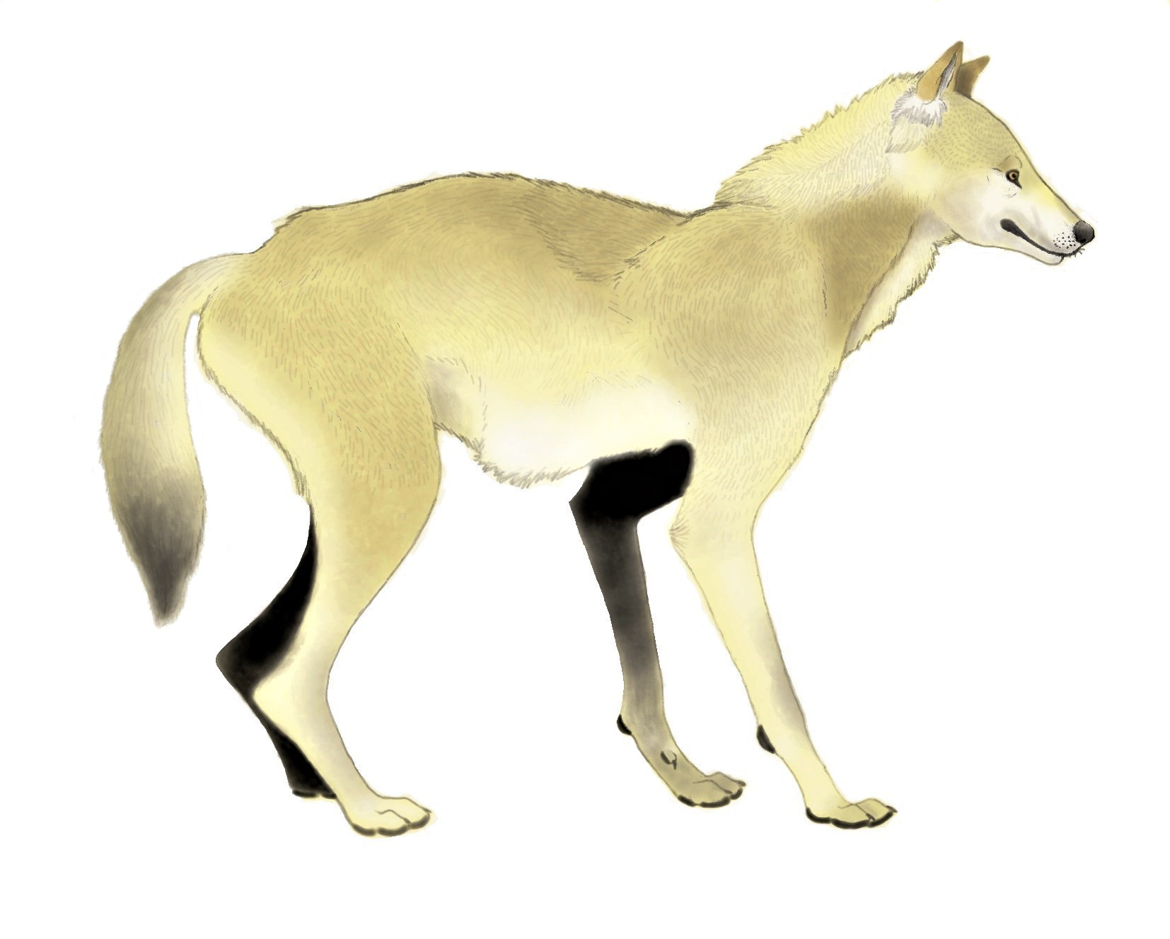 Illustration of Canis etruscus based on skeletal mount here. Head based on skull restoration by Mauricio Antón. Colour based on extant Himalayan wolf